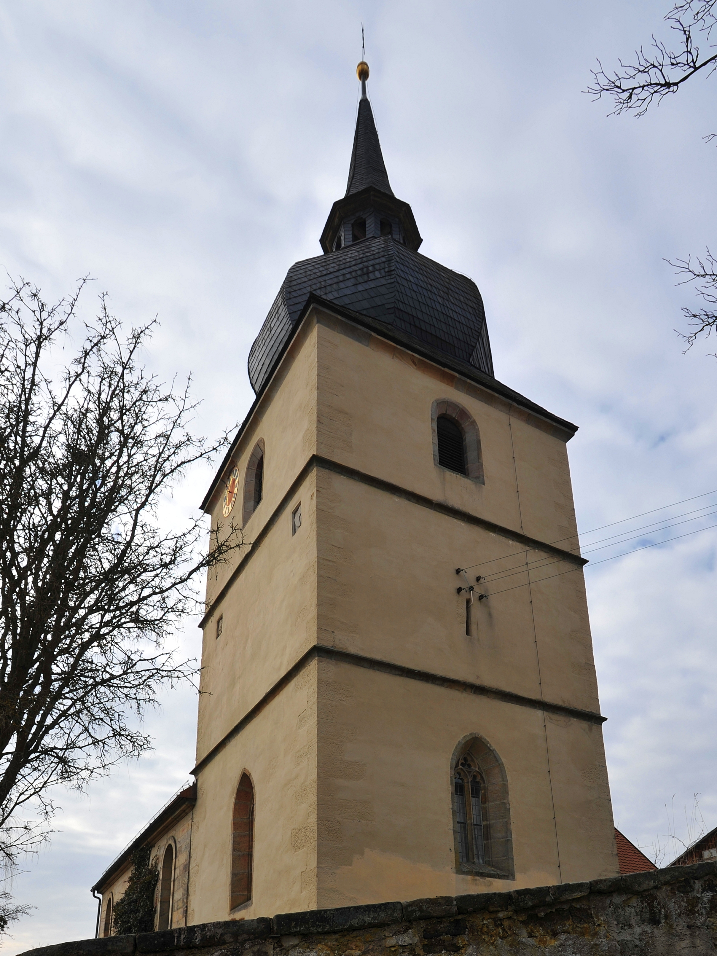 Church St. Peter und Paul (Busbach, Germany)